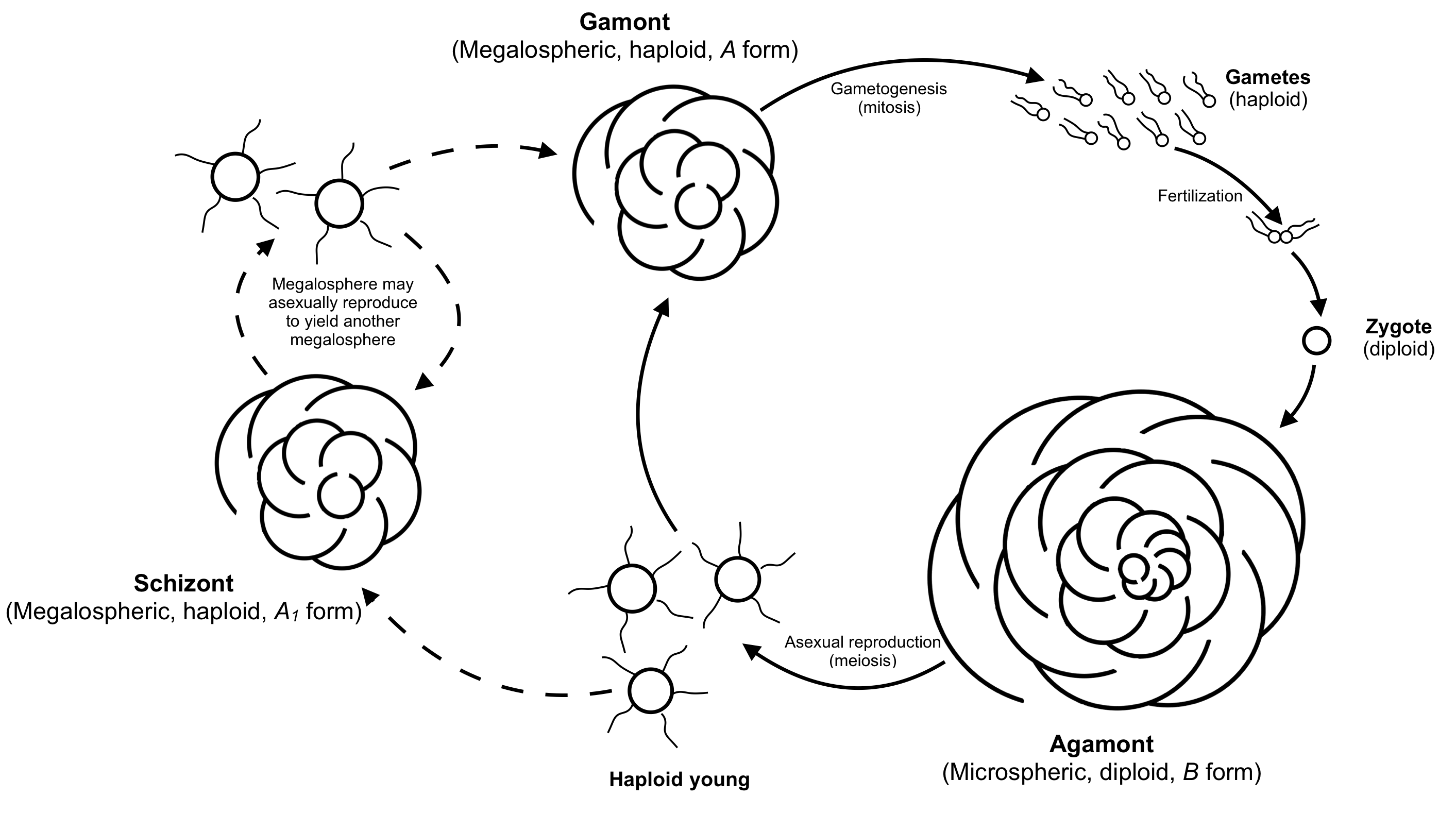 Diagram of the typical life cycle of a foraminifera, showing alternation of generations with the sexually-reproducing gamont and asexually-reproducing agamont. Generations differ in their reproductive modes, size of the proloculus (innermost chamber), overall size, ploidy, and number of chambers. A "schizont" phase may also occur, in which a megalospheric generation asexually begets another megalospheric generation. This latter generation may go on to reproduce sexually, or may repeat the schizont cycle. Gametes are typically undifferentiated. It should be noted that this only represents the stereotyped life cycle of foraminifera—there is an astounding amount of diversity in reproductive mode of foraminifera.